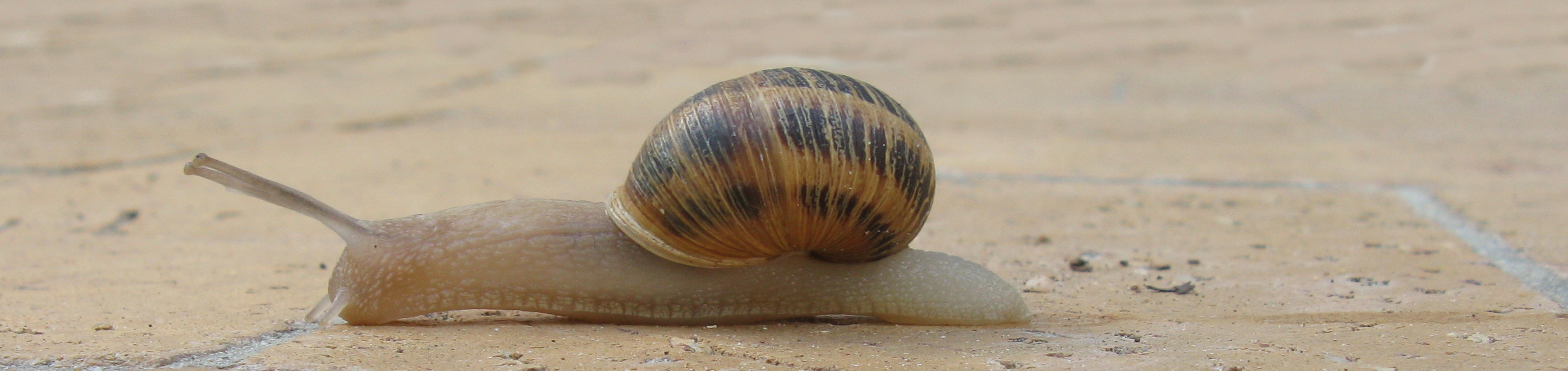 Cornu aspersum (or Helix aspersa as it used to be) leaves a mucus-conserving trail when moving over an absorbent surface such as dry brick. Here the foot is raised in two places to avoid contact that would leave unnecessarily expended mucus.